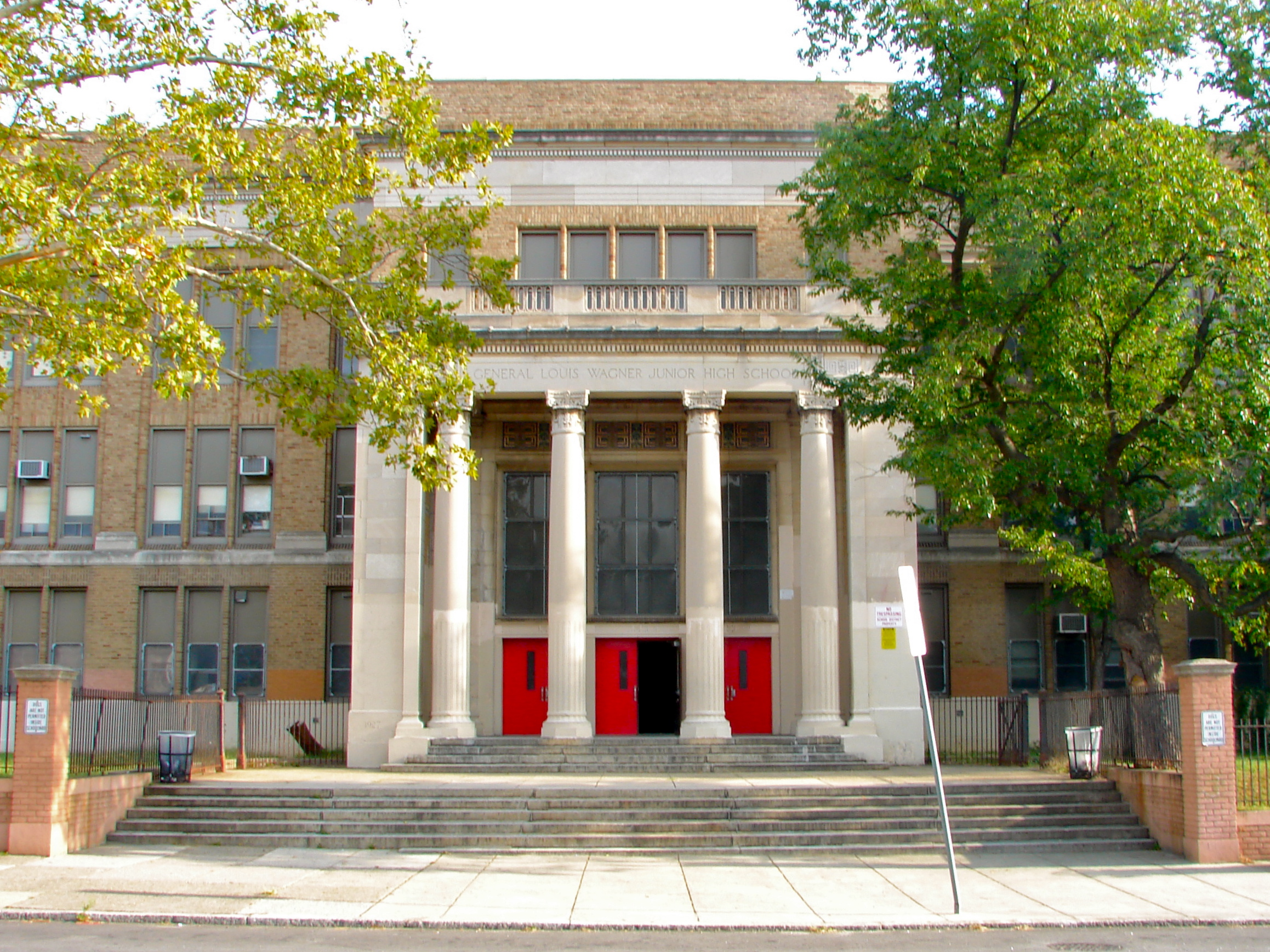 Gen. Louis Wagner Junior High School in Philadelphia on the NRHP since December 4, 1986. At 1701 Chelten Ave. in the West Oak Lane neighborhood of North Philly.